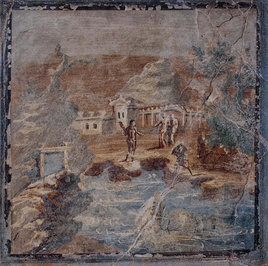 Hercules saves Hesione from sea monster